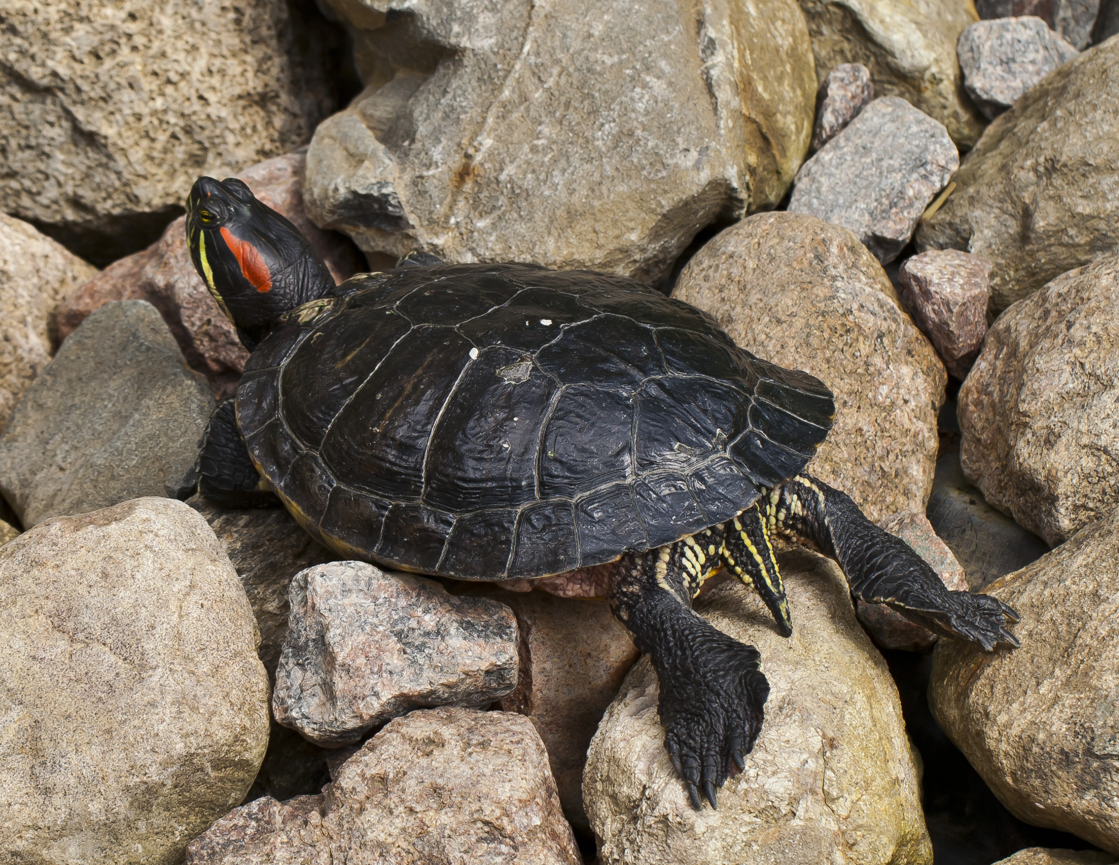 Red-eared slider (Trachemys scripta elegans), Tallinn Botanic Garden, Estonia